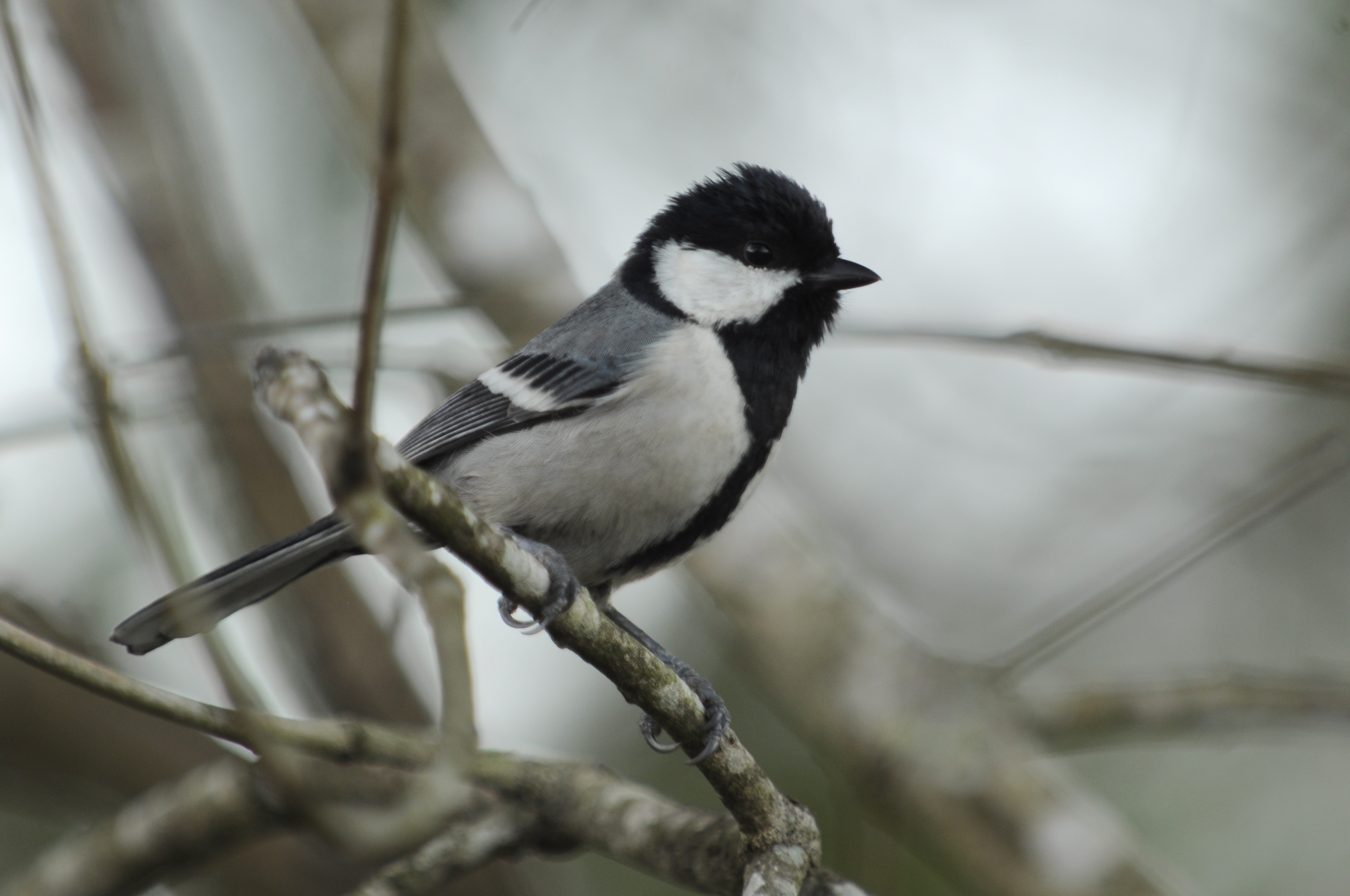 Cinereous Tit in BRT Sanctuary, Karnataka, India